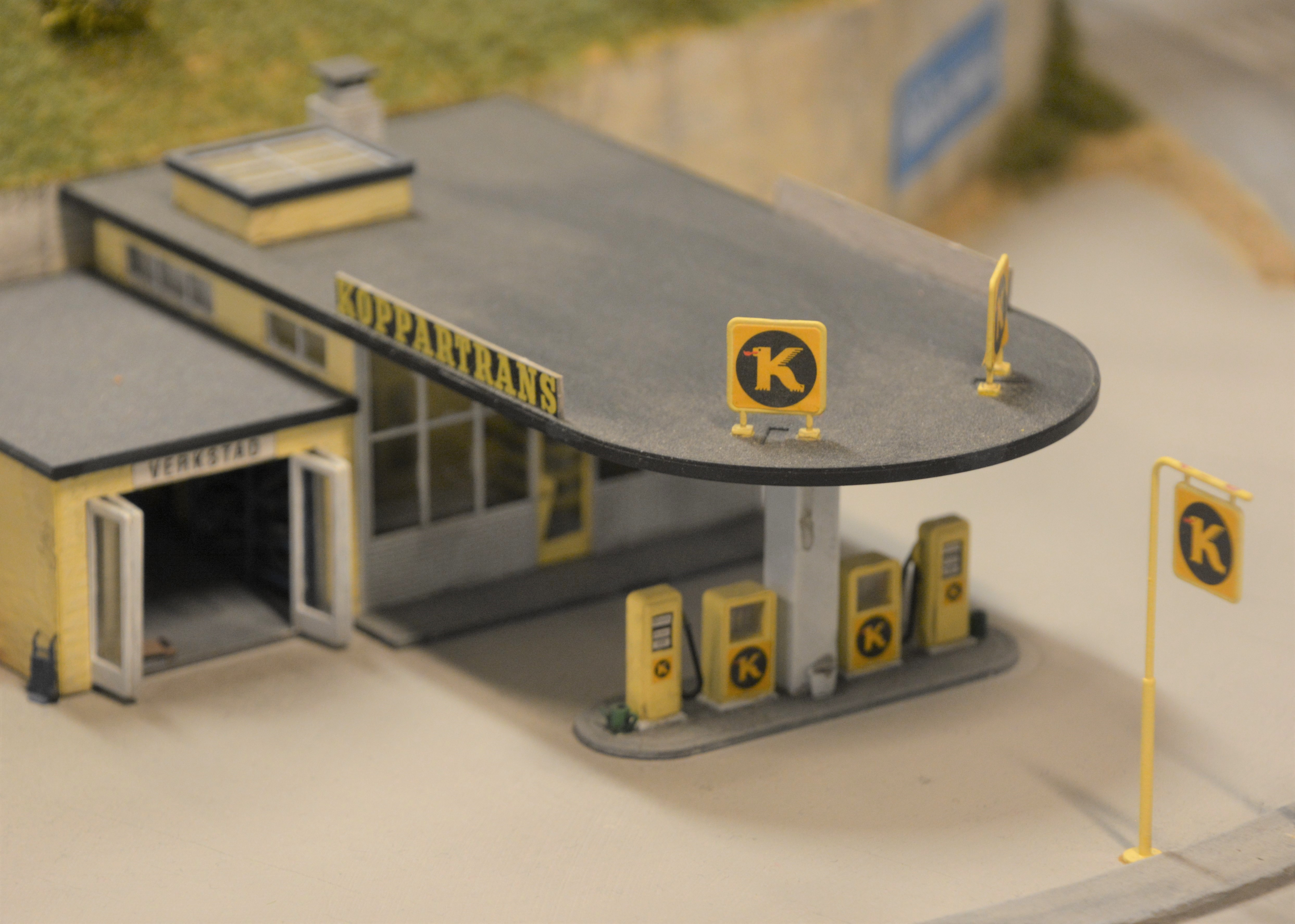 Model in H0 scale of Koppartrans petrol station at Miniature Kingdom at Kungsör, Sweden